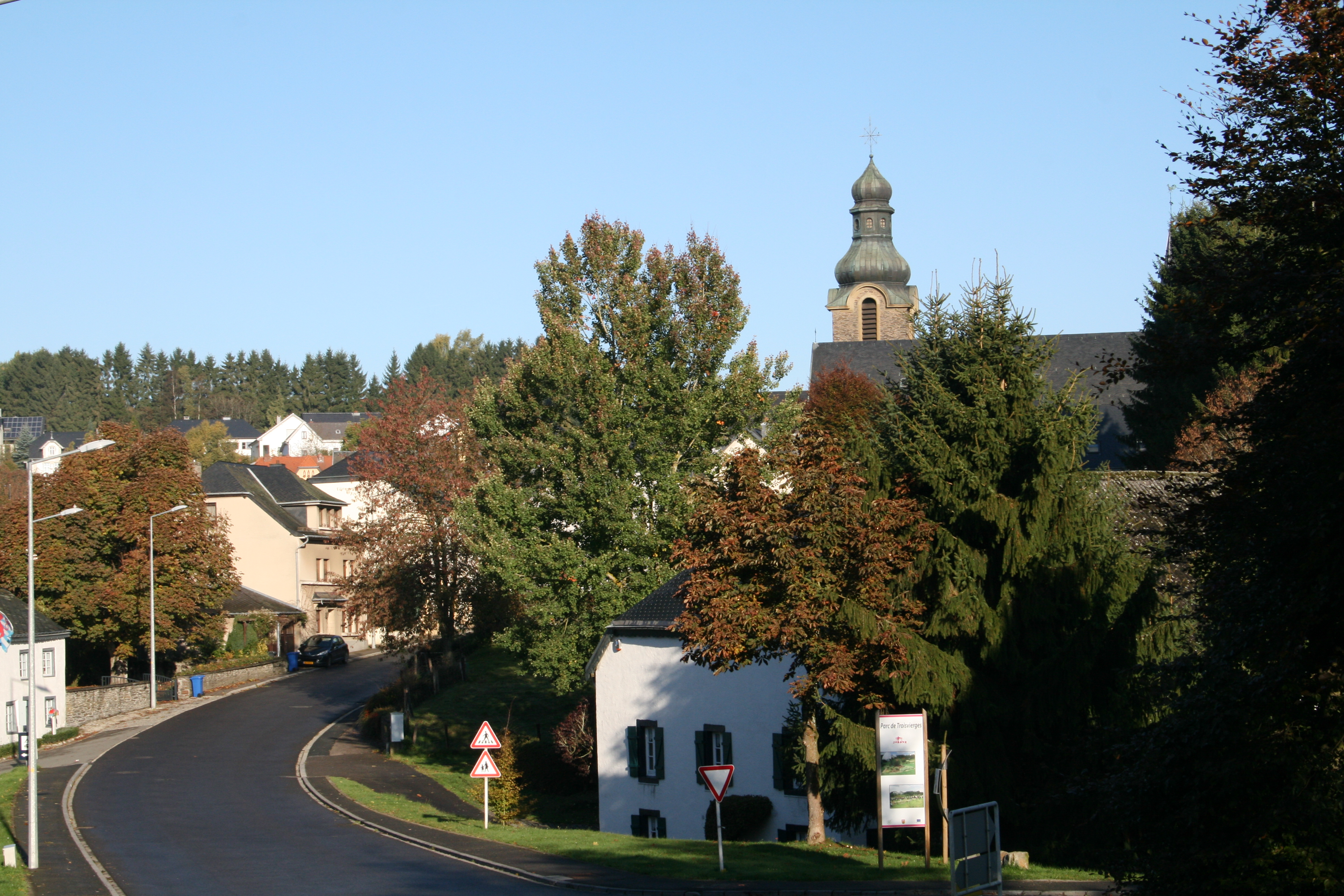 Troisvierges (Luxembourg), rue de Binsfeld - the neighbourhood of the church.